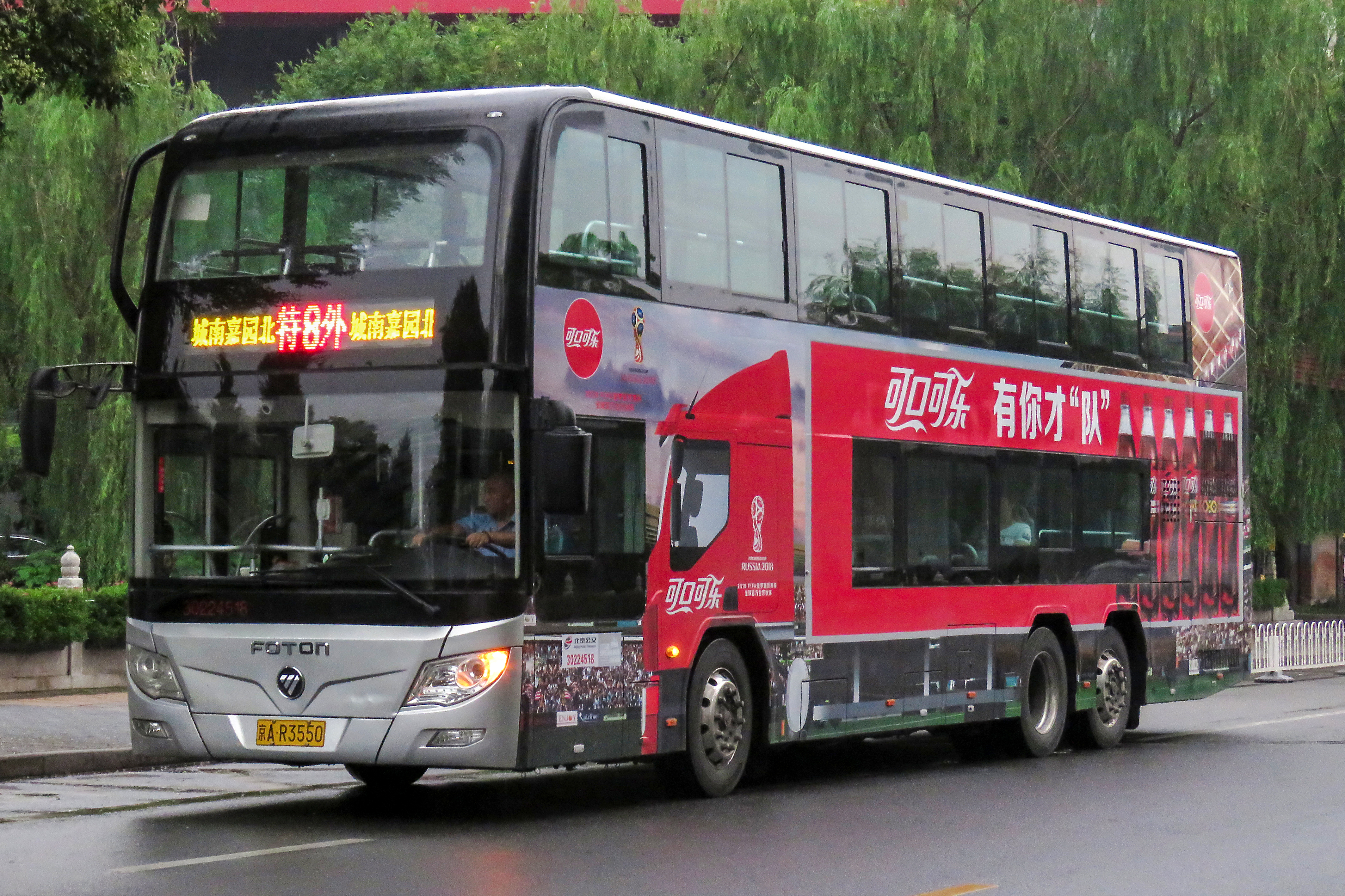 The "Coca-Cola Truck" is on the go even under heavy rain. With the arrival of AF4001 winners' flight flown by F-GSPK, the FIFA World Cup 2018 has now become a precious memory for all of us, including all the pomp and circumstances that happen on football fields.